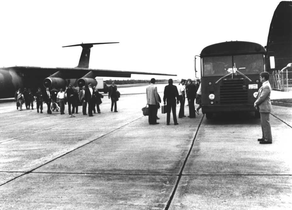 The signing of the historic INF Treaty between the United States and the Soviet Union in December 1987, which went into effect on 1 June 1988, opened the way for some very unique visitors to the U.S. Redstone Arsenal. A notable first for the installation occurred on the morning of Saturday, 16 July 1988, "... when a C-141 carrying 20 Soviet inspectors and their U.S. escorts touched down at the airfield." They were the first group of Soviet Union inspectors to visit the arsenal under the provisions of the verification procedure on which the INF—Intermediate-Range Nuclear Forces Treaty rested.